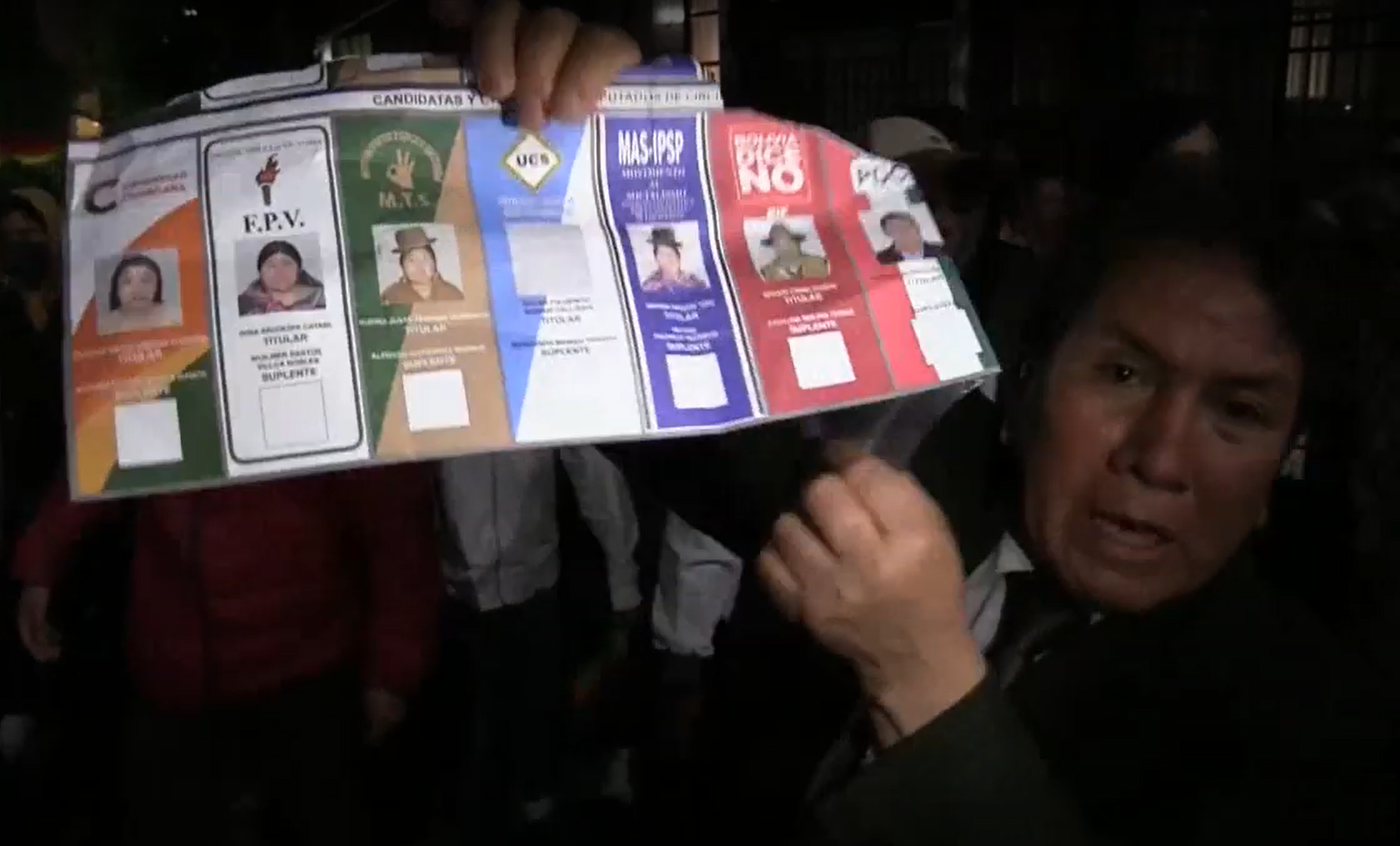 Violent protests in Bolivia in October 2019